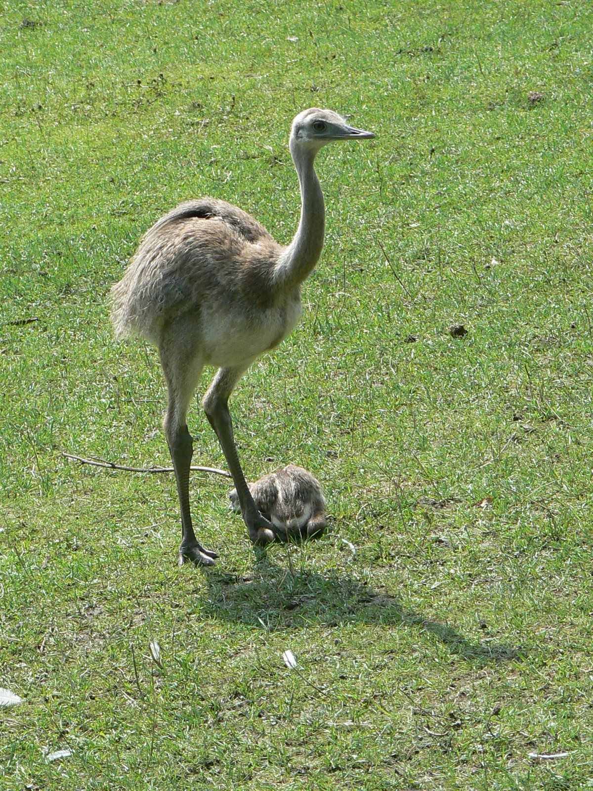 rhea americana / Greater rhea / nandu